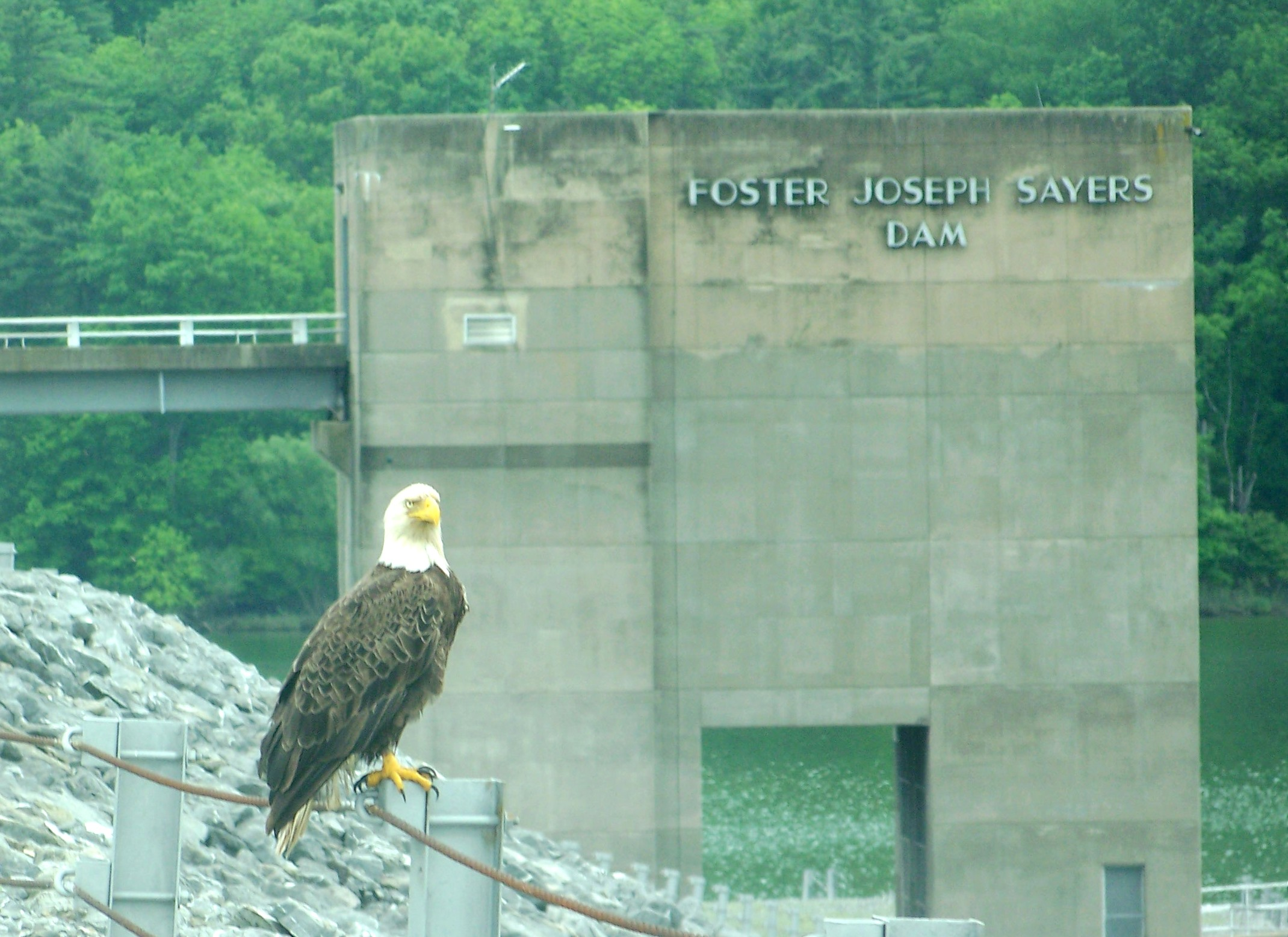 Don Harger, assistant dam operator at Sayer's Dam, captured this shot of an eagle resting by the dam. A pair of eagles nest near the dam and a convocation of them are seen frequently along the dam access road. (U.S. Army Corps of Engineers photo by Don Harger).